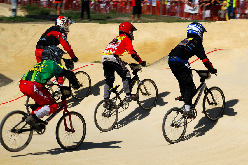 New Zealand BMX National Champs Bexley Reserve - Christchurch Easter Weekend 2008